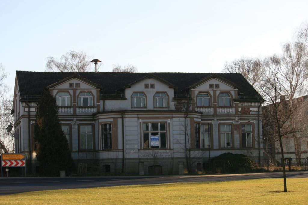 manor-house (school) in Retzow in Brandenburg, Germany